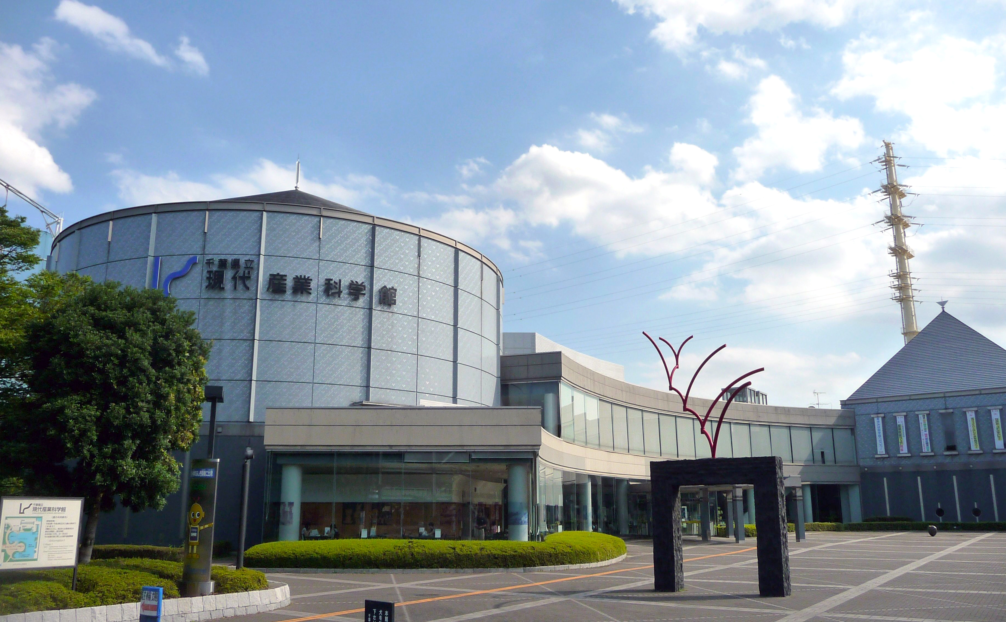 Chiba Museum of Science and Industry